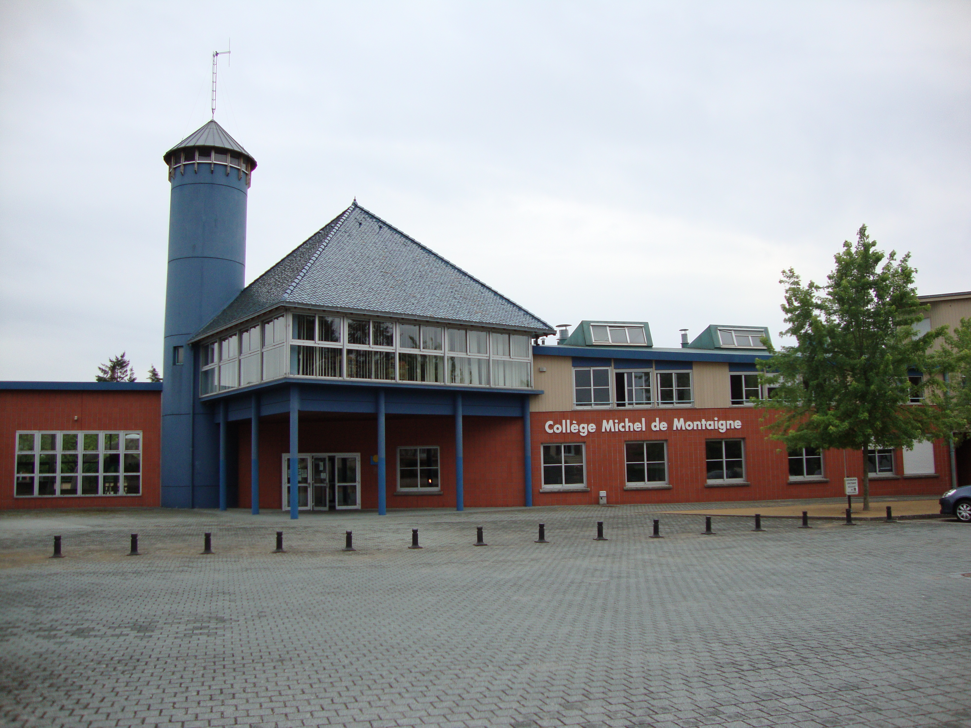 Balbigny (Loire, Fr) Collège Michel de Montaigne